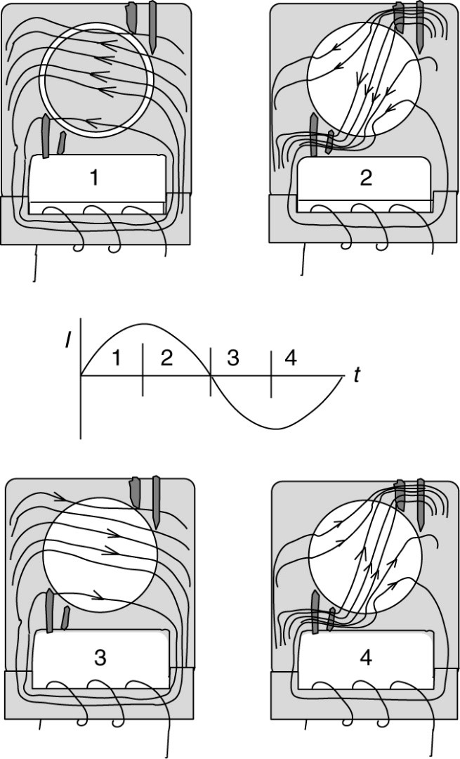 Magnetic flux in a sheaded pole induction motor.